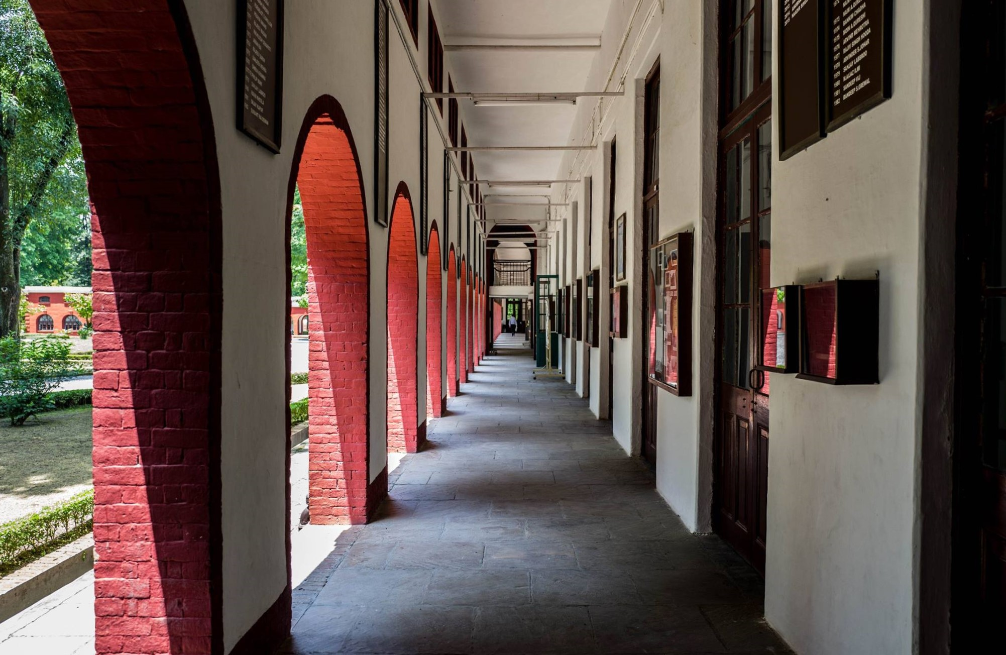 Ground floor corridor of the Main Building at The Doon School, Dehradun, India.